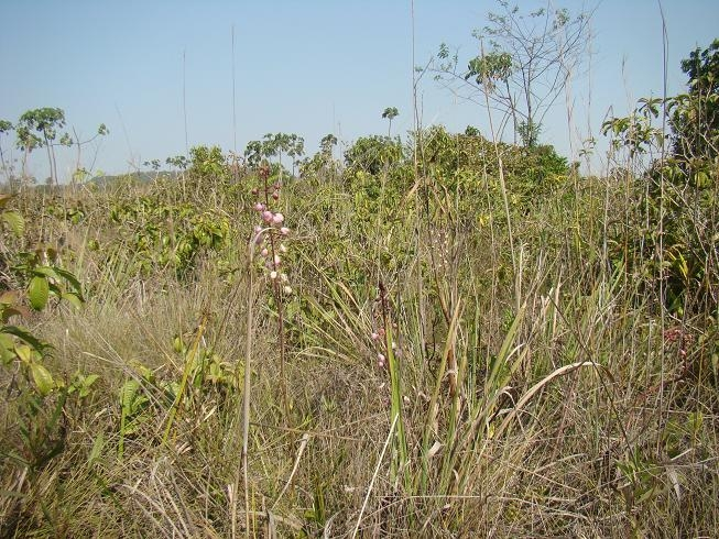 Species growing over its grassy habitat in Sao Paulo State, Brazil